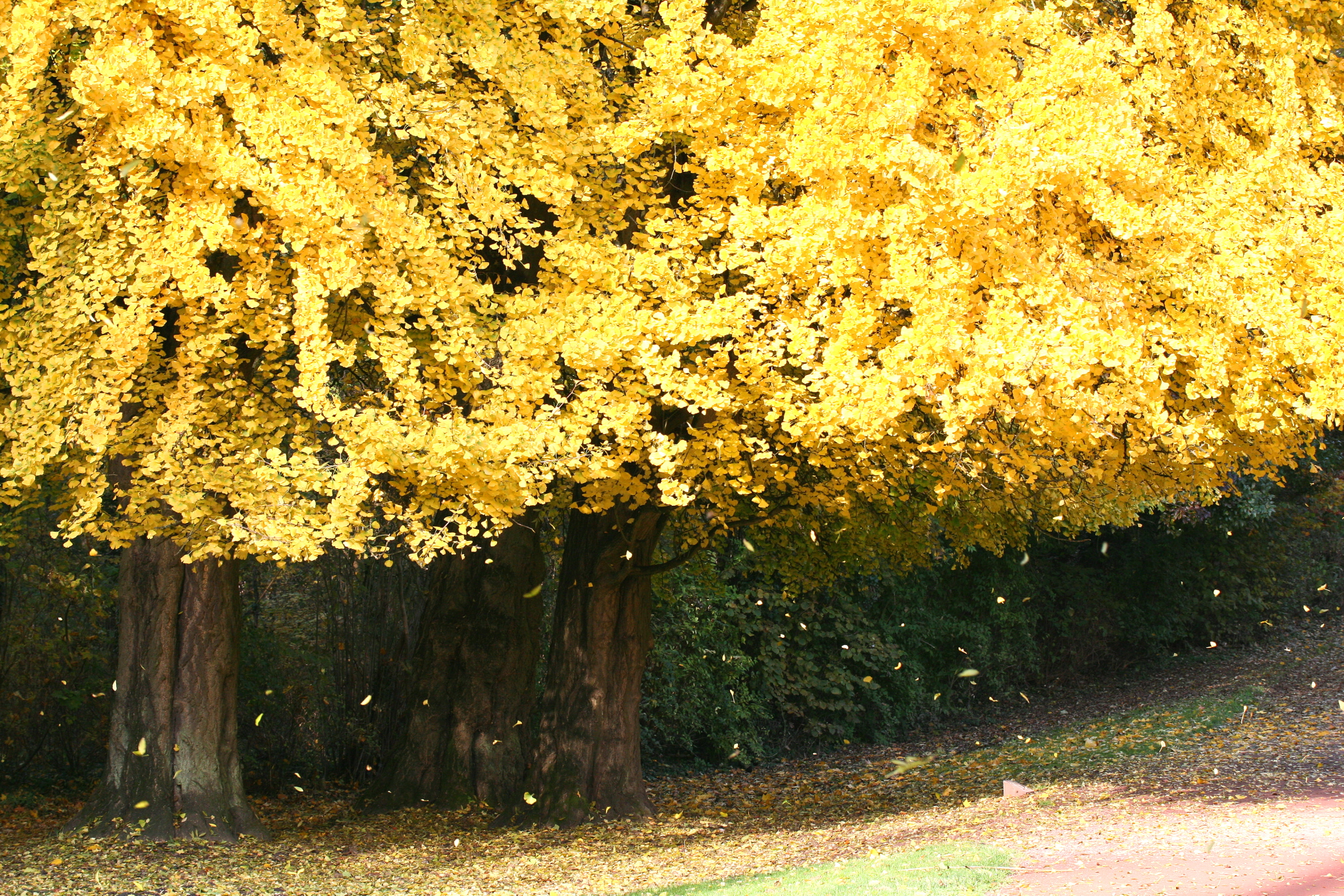 Ginkgo biloba also known as Maidenhair Tree.